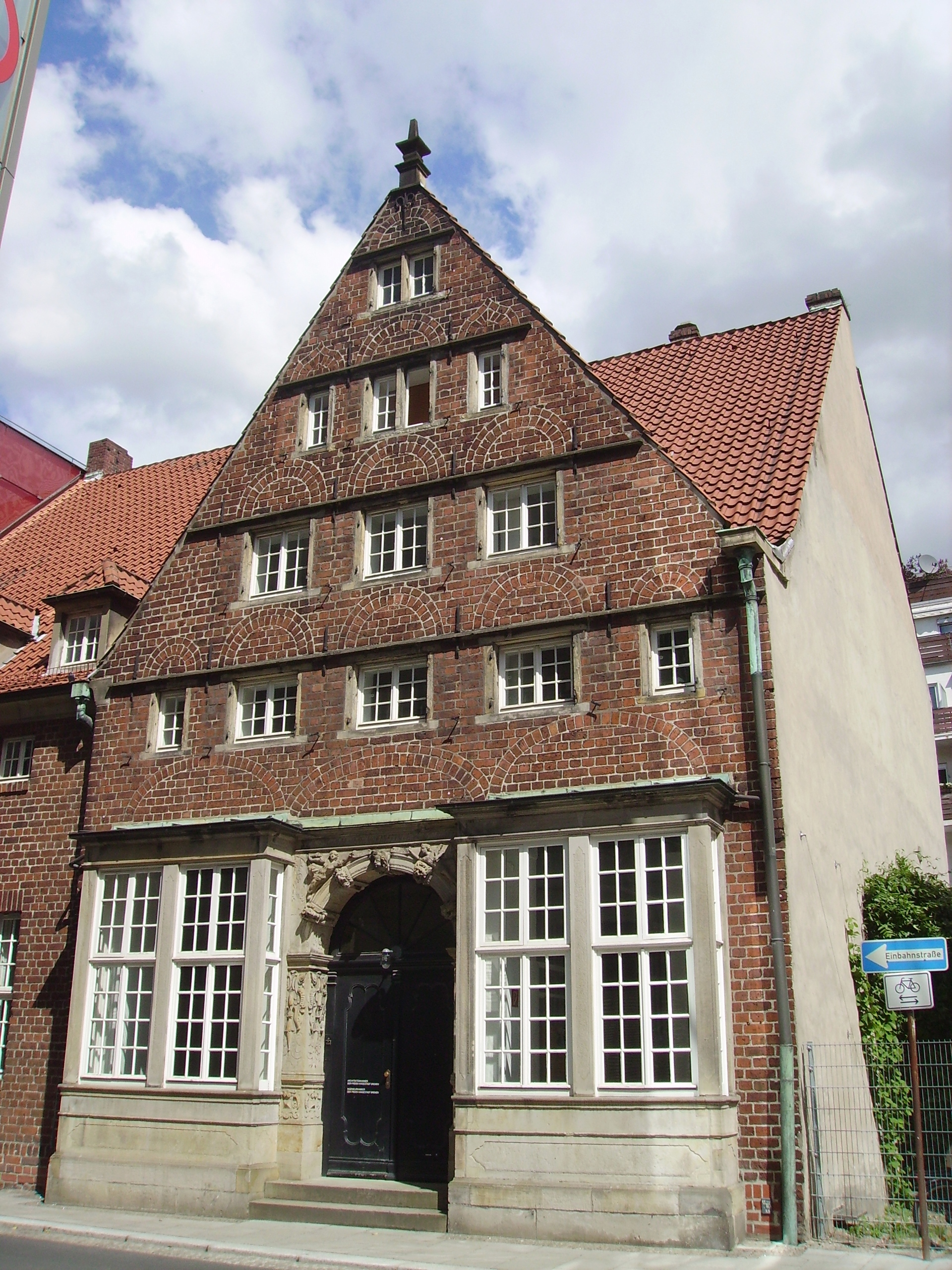 Building of the chamber of architects in Bremen